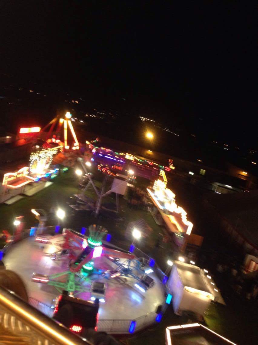 Kimberfesten from above